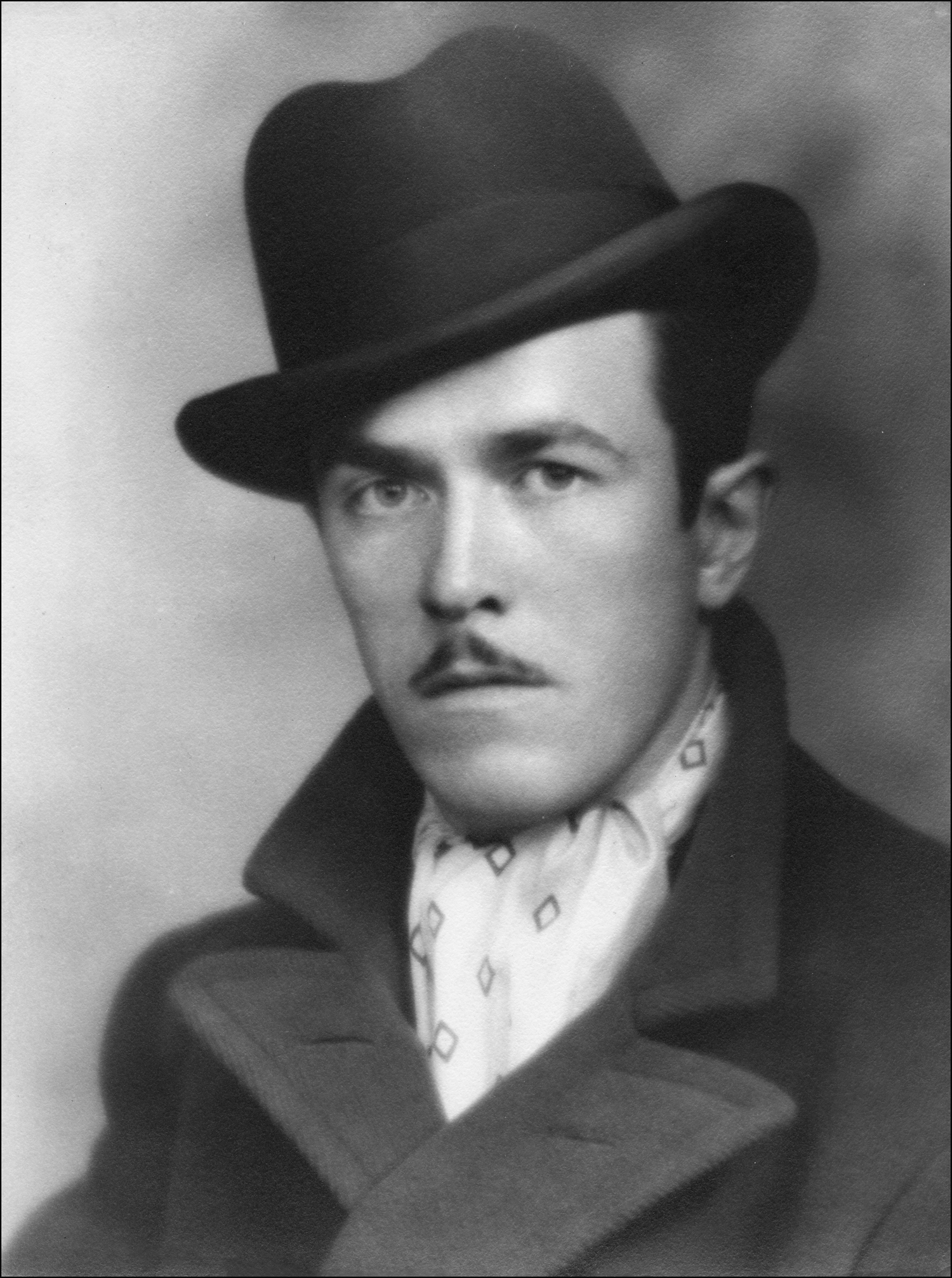 A copy of a family photo, part of the T. W. Pietsch collection